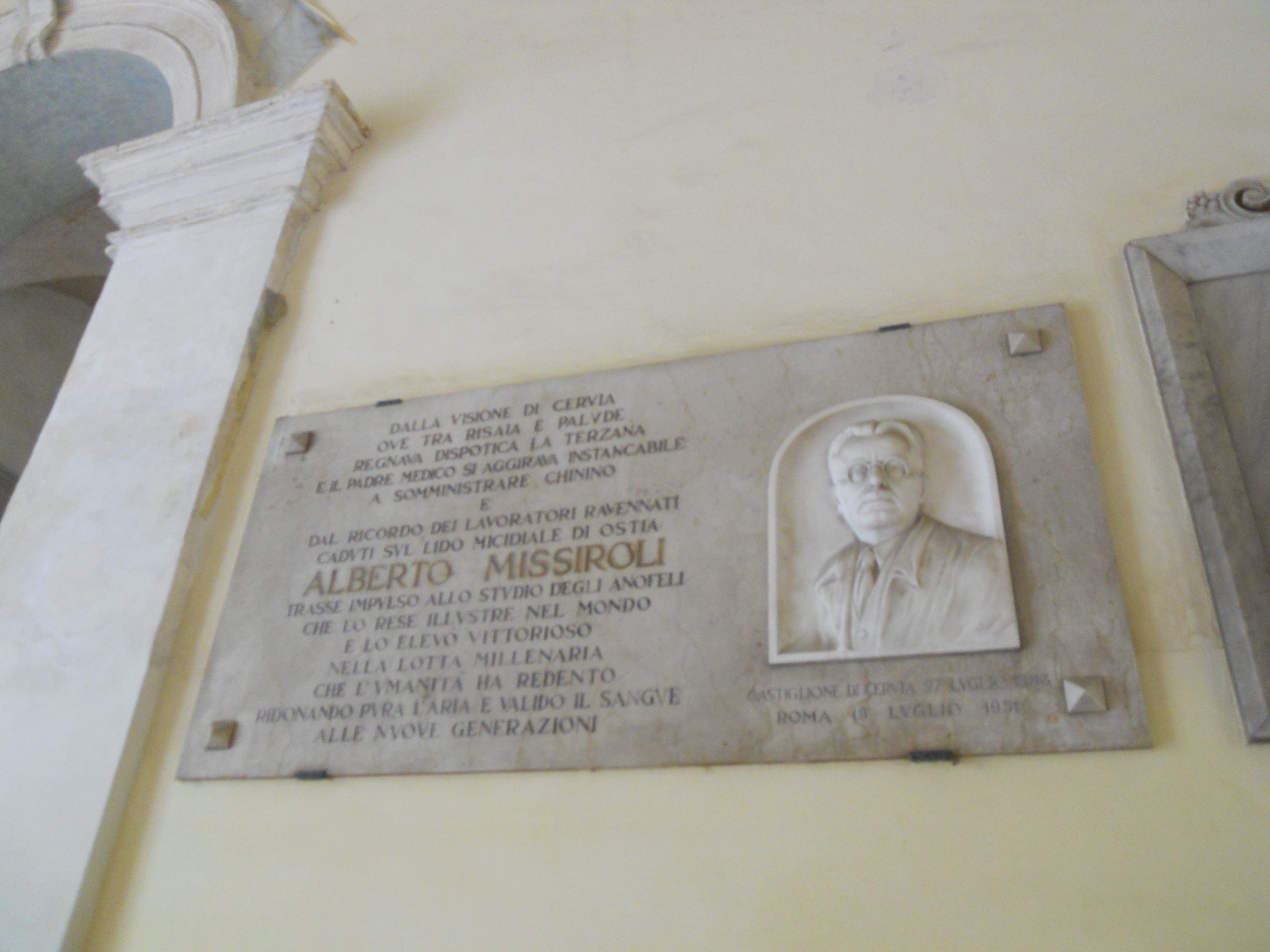 Plaque in commemoration of Alberto Missiroli, malariologist